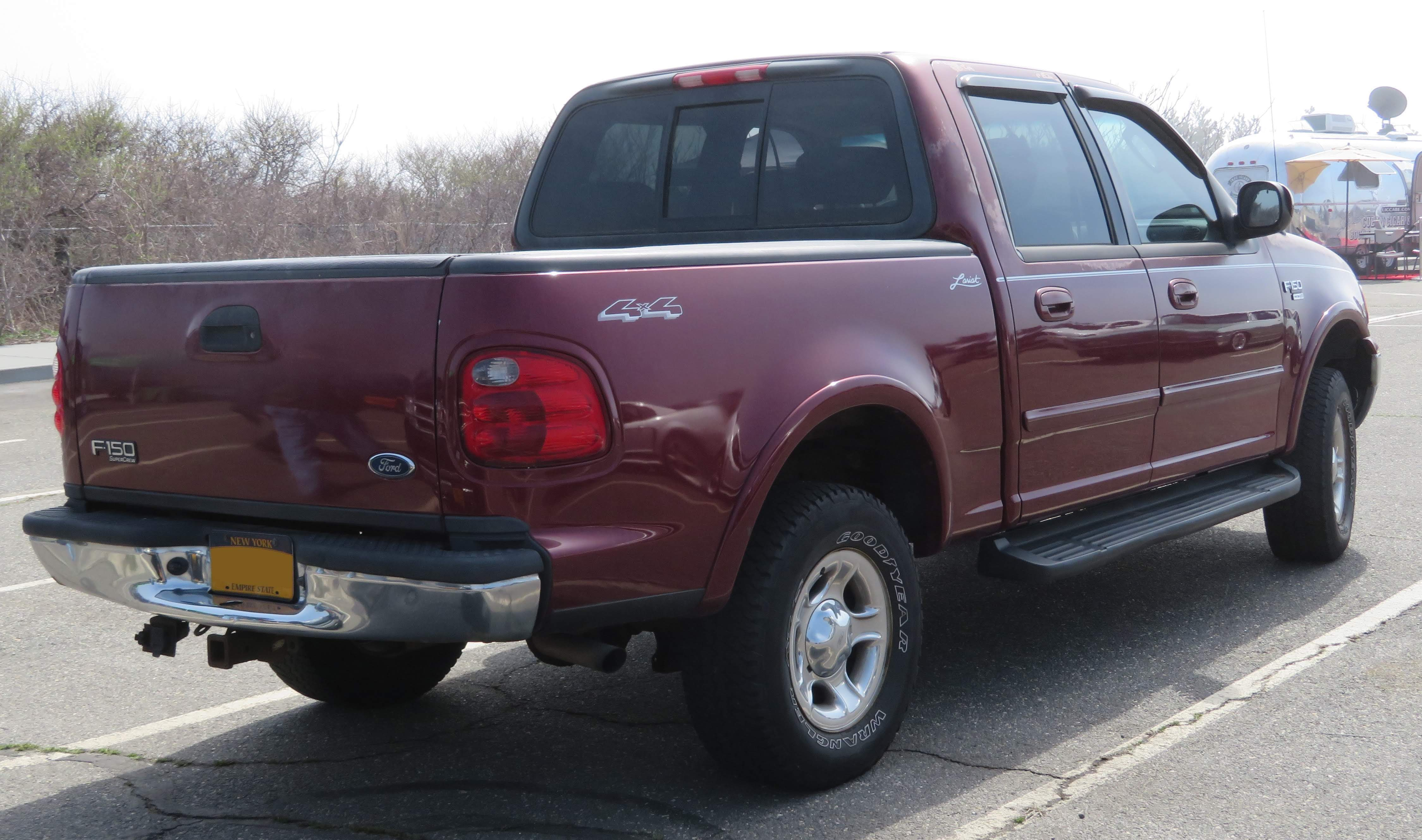 Photographed in Long Island, New York